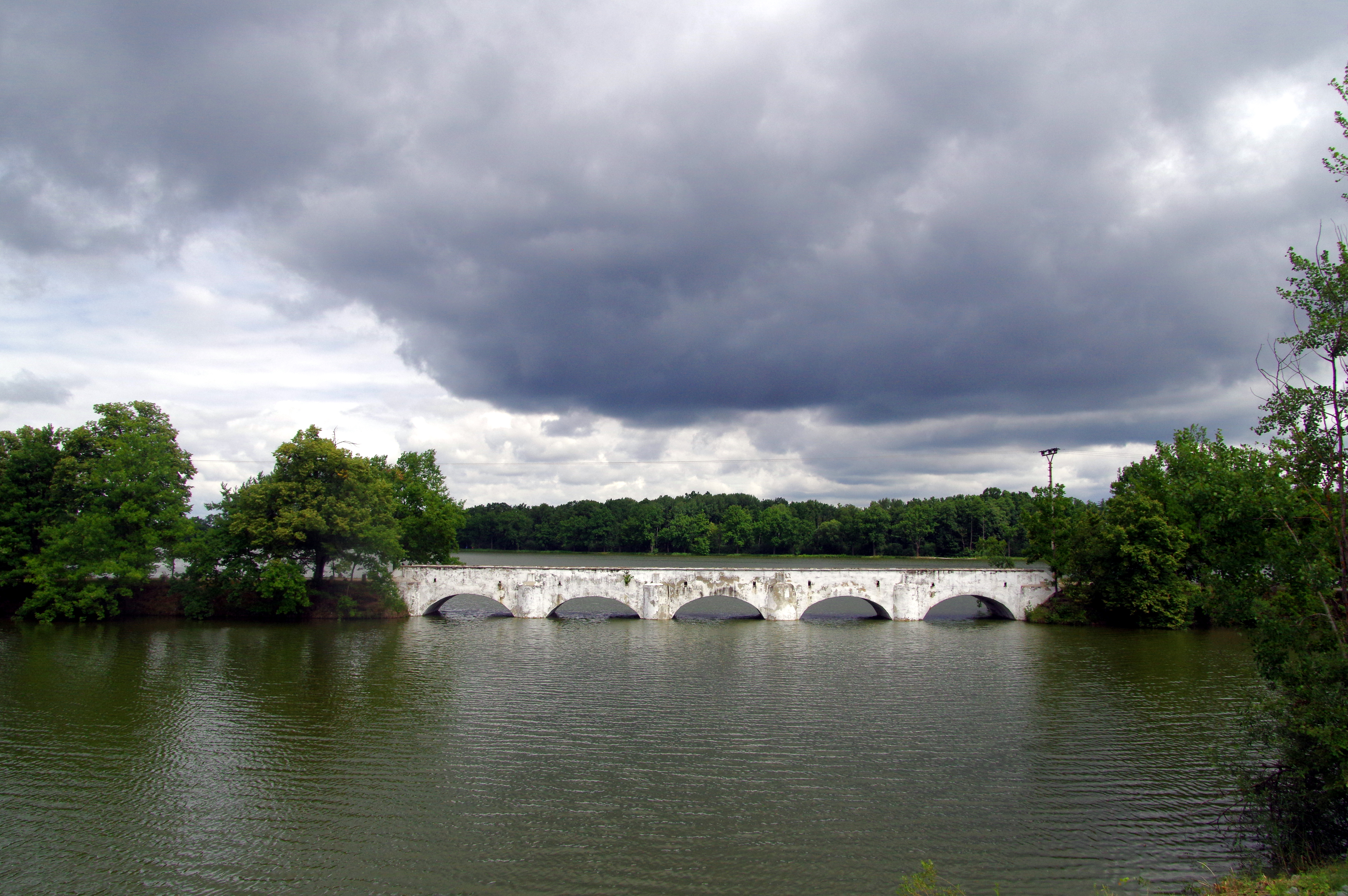 15.7. 16 Around Trebon